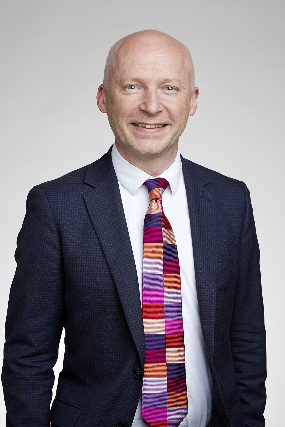 Marcus Peter Francis du Sautoy FRS OBE (born 26 August 1965) is the Simonyi Professor for the Public Understanding of Science and a Professor of Mathematics at the University of Oxford. Attribution: The Royal Society